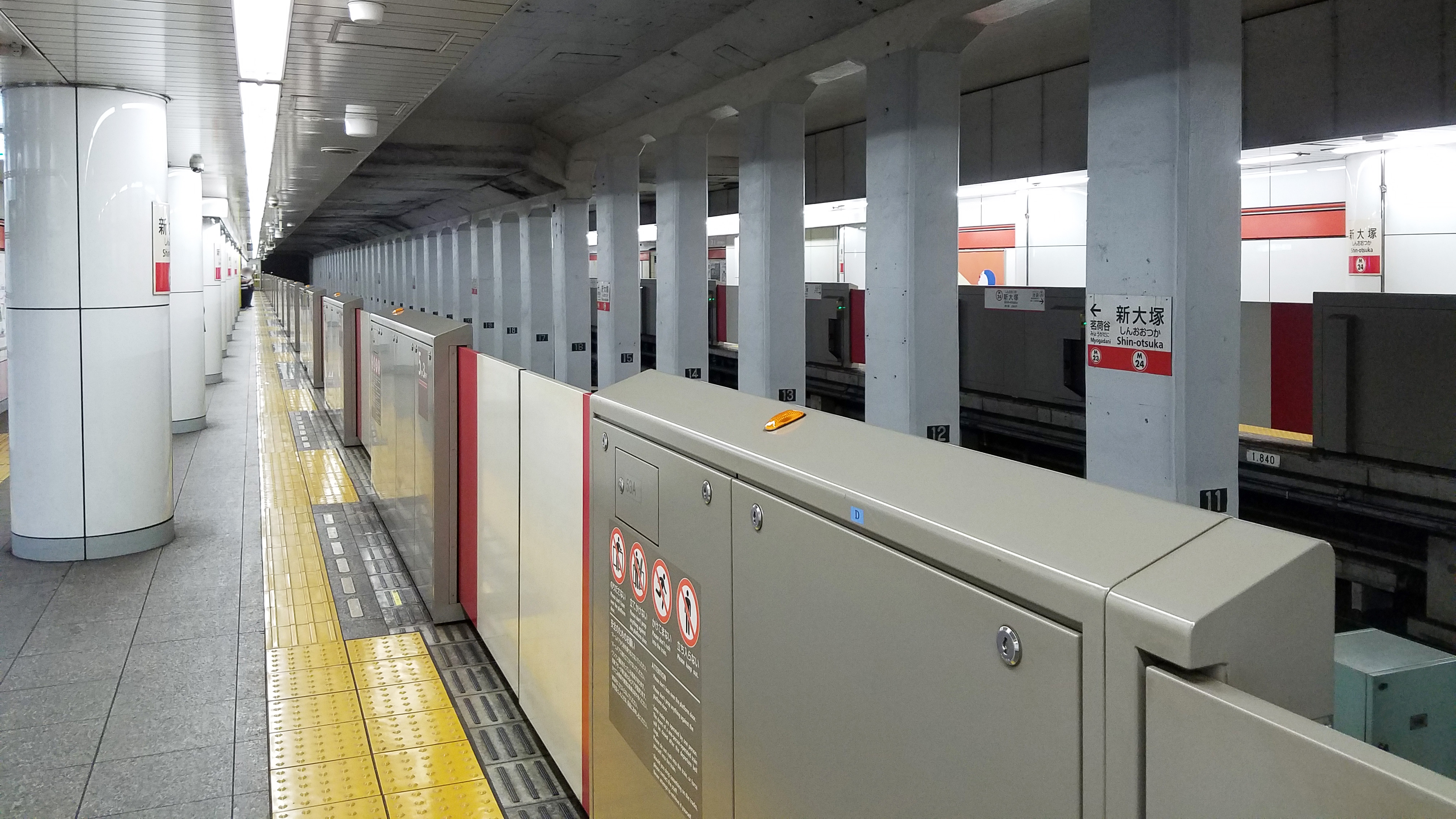 The platforms at Shin-ōtsuka Station on the Tokyo Metro Marunouchi Line in Bunkyō city, Tokyo, Japan